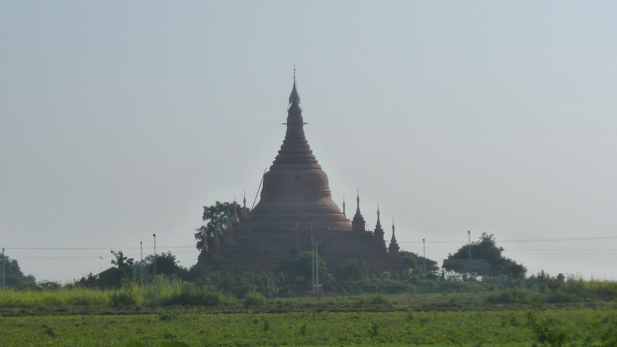 Old Pinya site; now only paddy fields